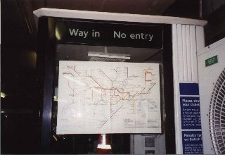 Demonstrating one aspect of unintentional humor. Taken in London by a friend of Timwi and released under the GFDL.